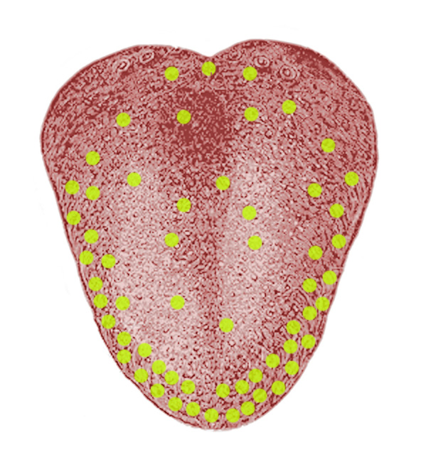 Human tongue, taste buds for sour are marked